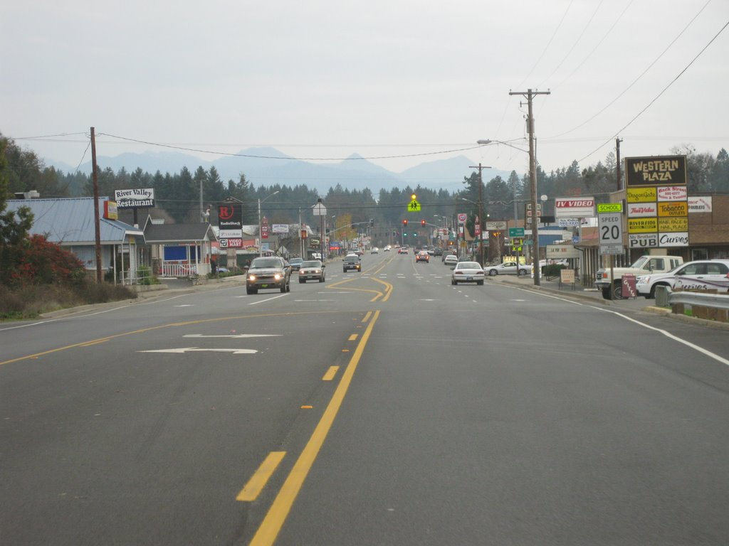 Cave Junction, Oregon. Driving into town from the North. The mountains in the background starting from the right are Wounded Knee, Broken Rib, Haystack, Little Sanger Peak, Big Sanger Peak, and Chicago Peak